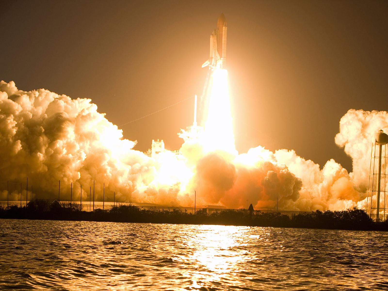 The Discovery space shuttle lifting off on the STS-119 mission from Launch Pad 39A at NASA's Kennedy Space Center. The STS-119 mission is the 28th to the International Space Station and the 125th space shuttle flight. Discovery will deliver the final pair of power-generating solar array wings and the S6 truss segment.